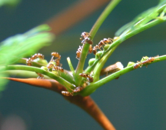 Acacia ants (Pseudomyrmex ferruginea). Cropped version of File:Pseudomyrmex ferruginea Ryan Somma.jpg